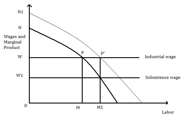 capitalist sector